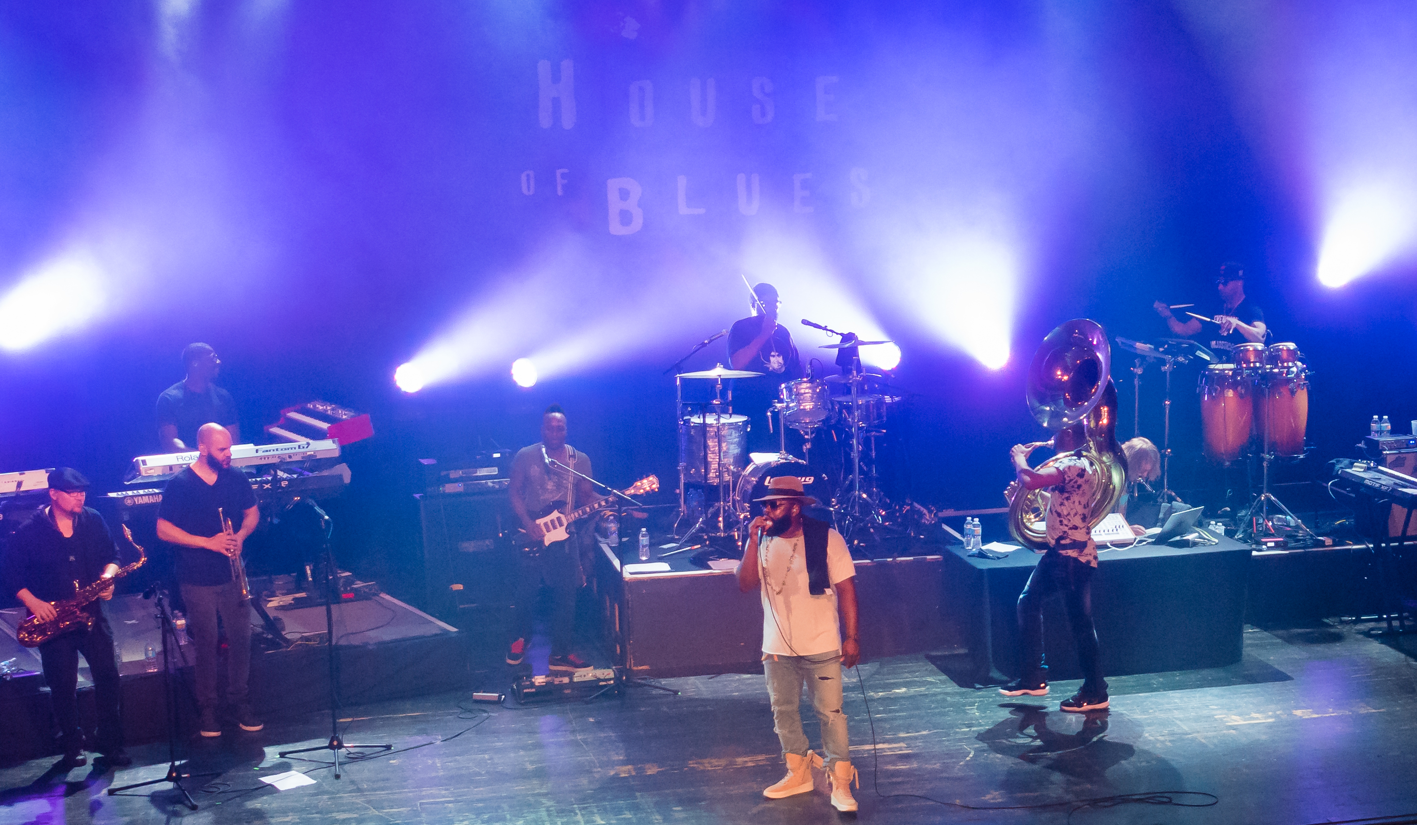 On December 29, 2016, The Roots and Questlove made a stop in Orlando at the House of Blues Orlando as part of their 2016/2017 Holiday Tour. The show was amazing. Included were tributes to George Michael and Prince. Photos taken using a Sony RX100m4 (a "pocket camera") and are free for use by anyone. (In other words, no copyright is implied by me whatsoever).